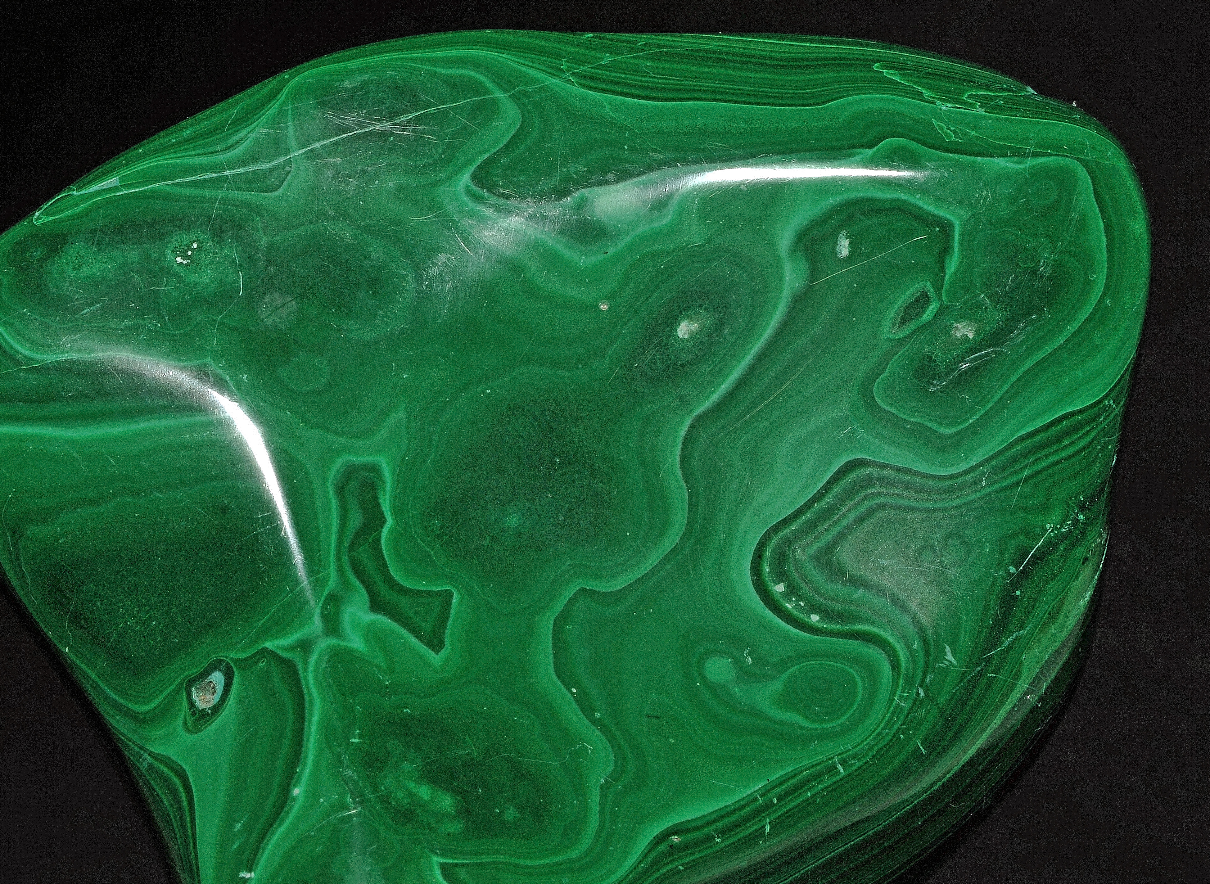 malachite polished : Democratic Republic of Congo